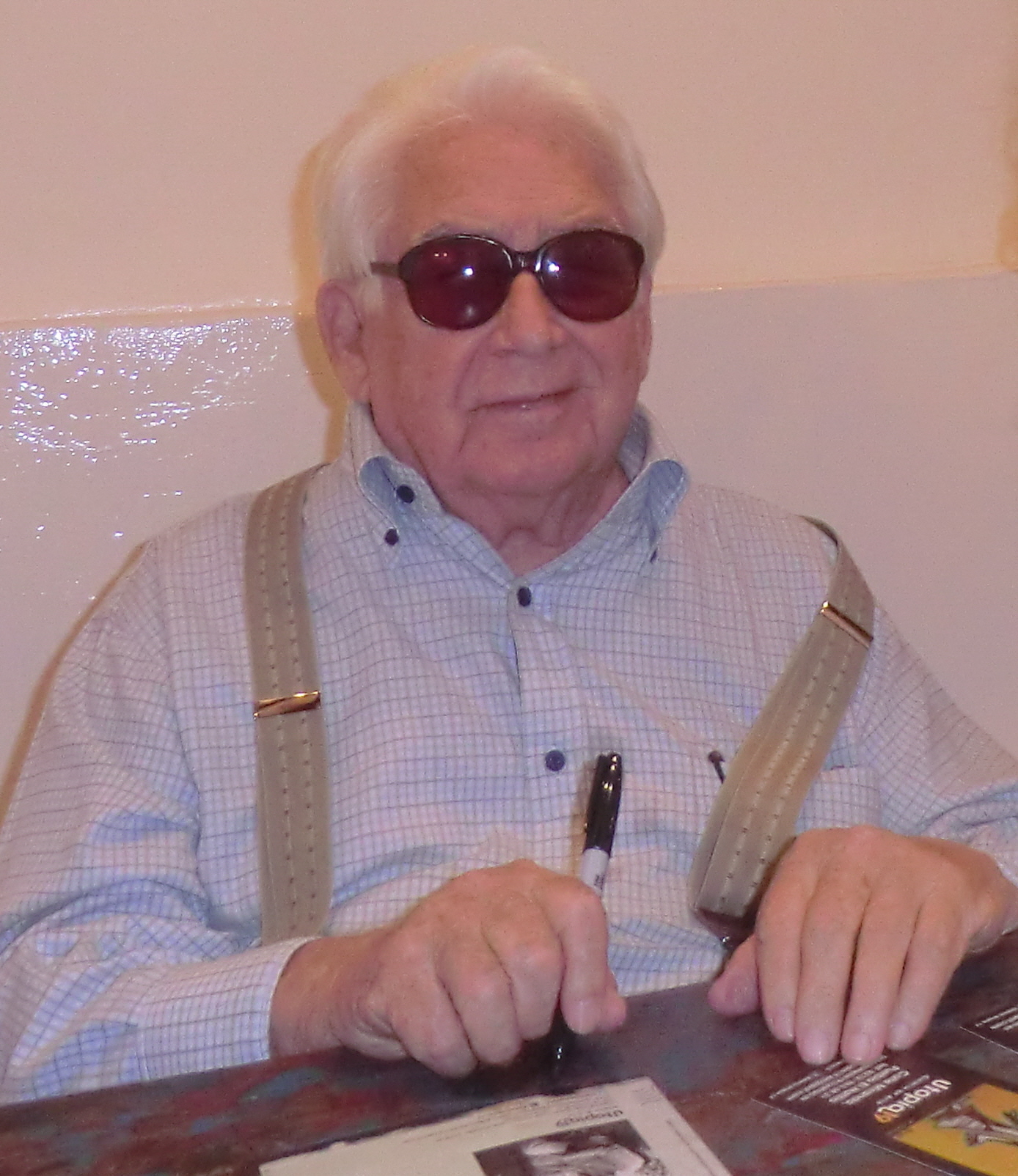 Venezuelan artist Oswaldo Vigas in Hatillarte. Caracas, Venezuela, 2012.